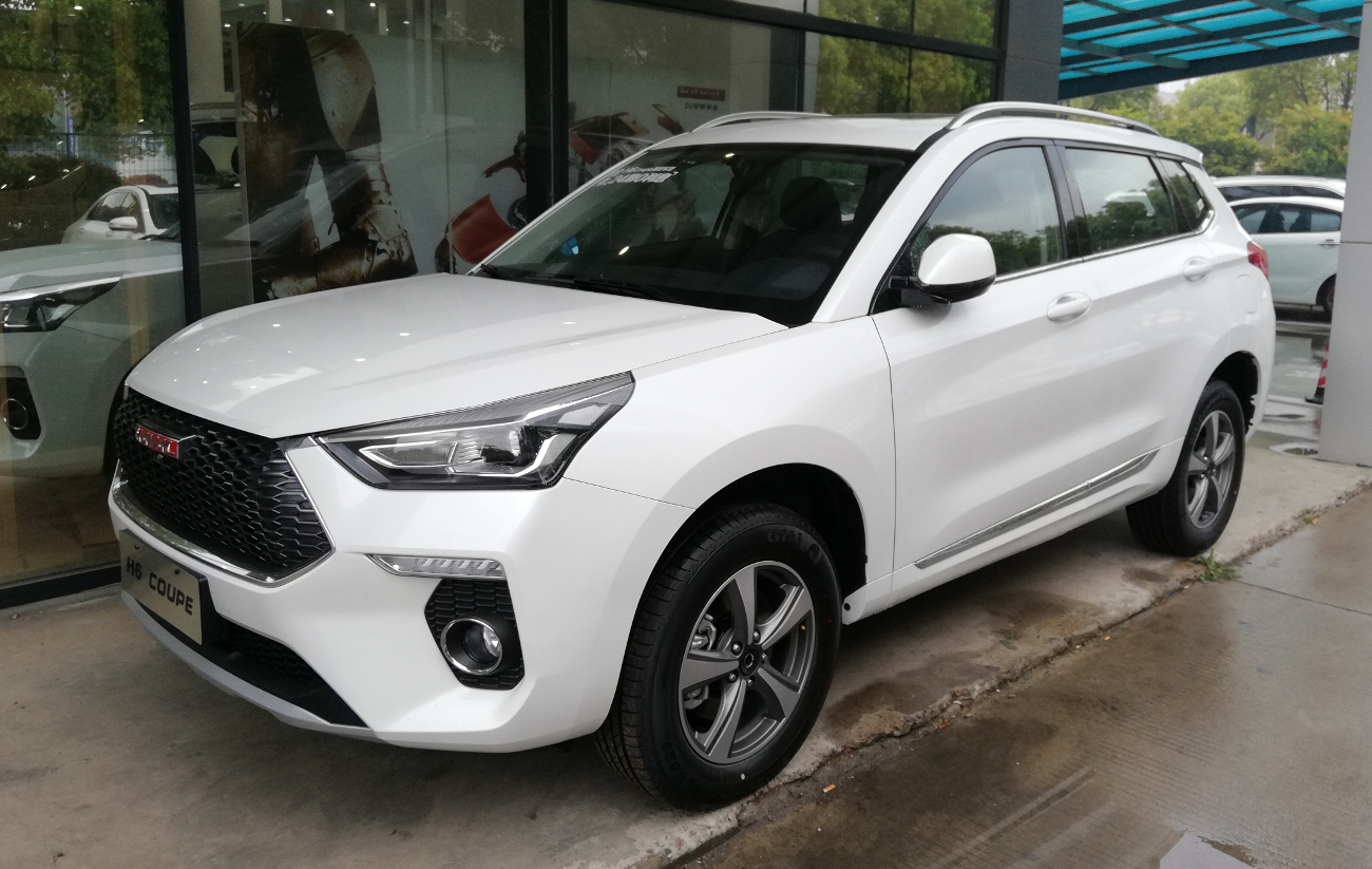 Haval H6 Coupe II Red photographed in Changzhou, Jiangsu province, China.